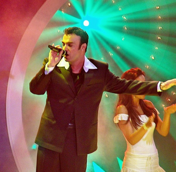 Istanbul, Turkey – David D’or singing Leha'amin (To Believe), the Israeli entry to the 2004 Eurovision Song Contest, at the “Blue and White Party” organized by the Israeli embassy, few days before the Semi-Final